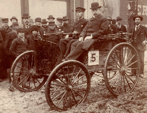 Duryea automobile, 1895; photo taken at the start of the Chicago Times-Herald race, November 28, 1895; J. Frank Duryea is the driver and the passenger, one of the race umpires, is Arthur W. White of Toronto California.